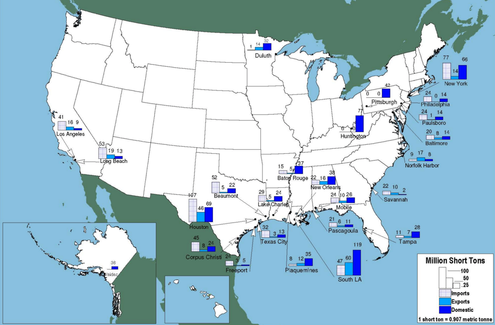 US ports by tonnage